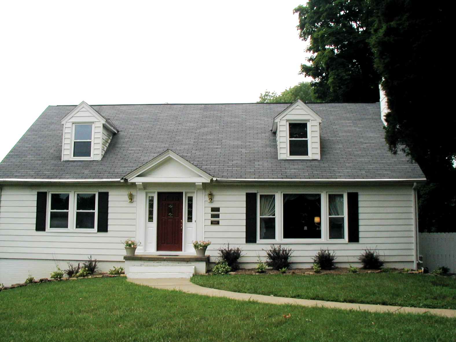 Photograph of exterior front of Lyrecrest, national headquarters of Phi Mu Alpha Sinfonia Fraternity of America, Inc.